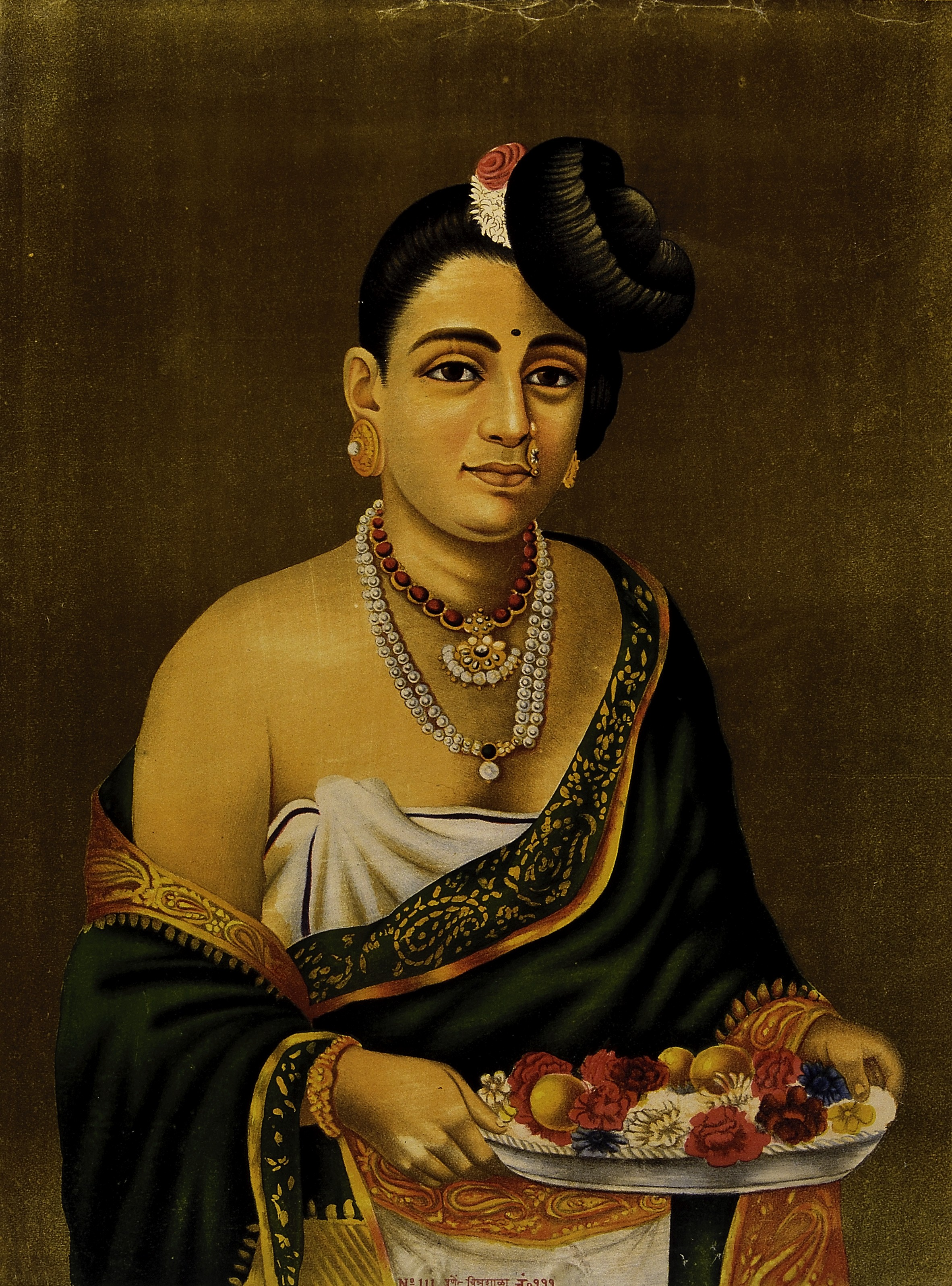 Portrait of a Nayar lady with distinctive hairstyle. Chromolithograph. The bottom Devanagari writing in the image says "Pune: Chithrashala", which means Pune imprints. Iconographic Collections